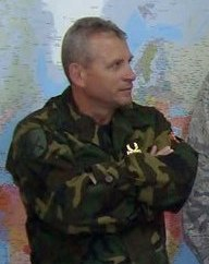 US Ambassador Reeker joined the Macedonian Army Chief of Staff, General Miroslav Stojanovski, U.S. Navy Rear Admiral Wiliam Brown, and other guests for a briefing and tour of the ongoing logistic military workshop of the Adriatic Group countries, LOGEX 09. The event took place at Straso Pindžur Military Barracks near Skopje. After the tour, Ambassador Reeker gave a statement to the media, in which he recognized the Macedonian Army for its contribution to NATO-led peacekeeping missions and emphasized that Macedonia is a loyal ally. He also underscored the continuing U.S. support for Macedonia’s membership in NATO.